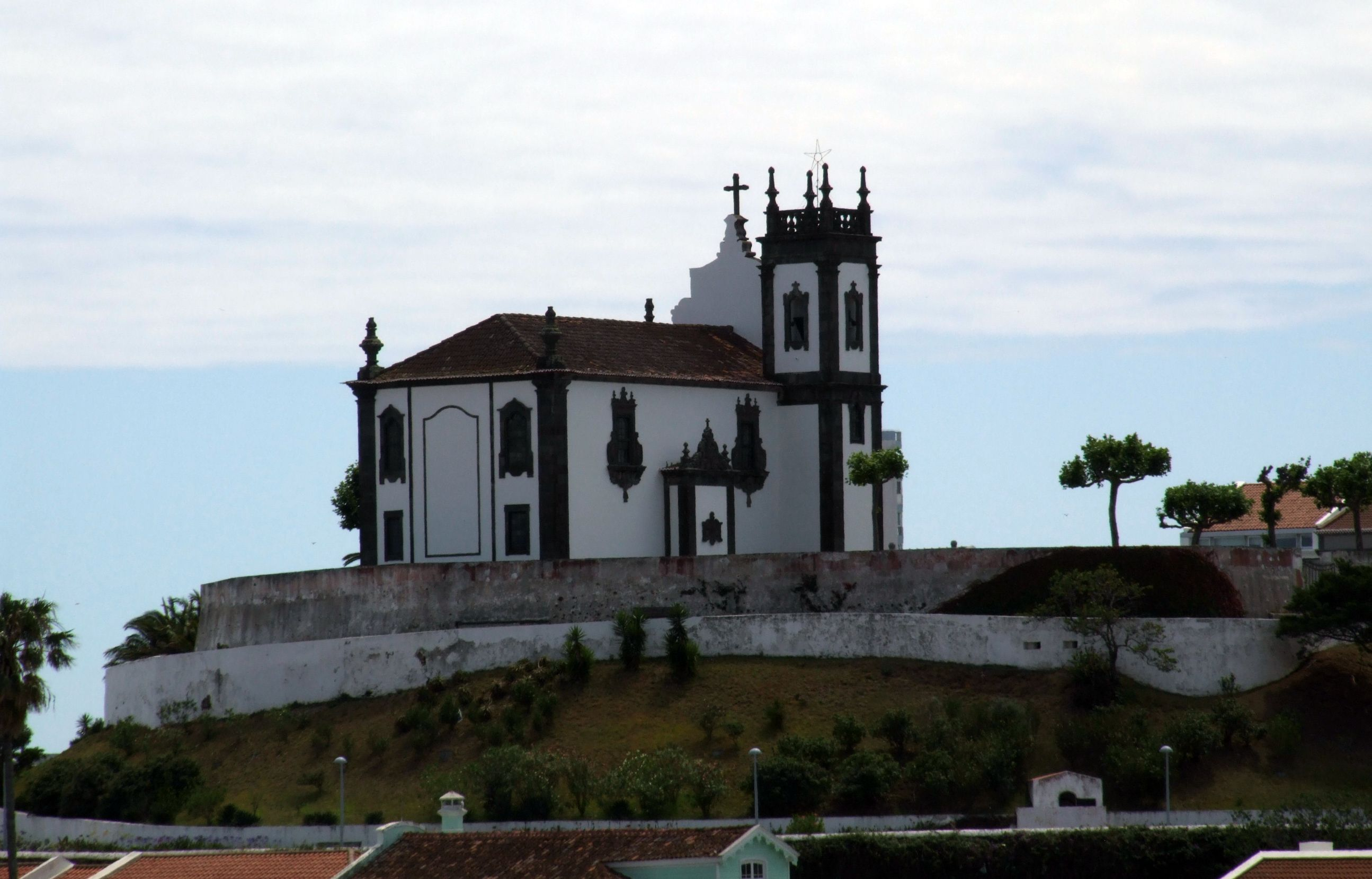 The Church of Mãe de Deus on top of the hill same name, São Pedro, Ponta Delgada, São Miguel (Azores), Portugal